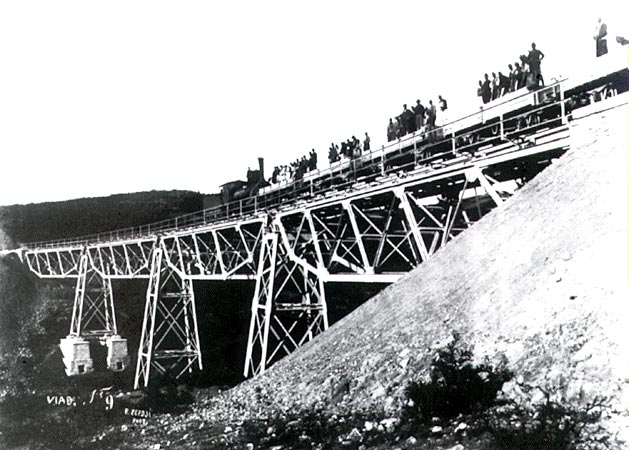 An iron railway bridge near Edessa, on the Salonique-Monastir railway line (now Thessaloniki-Florina line).